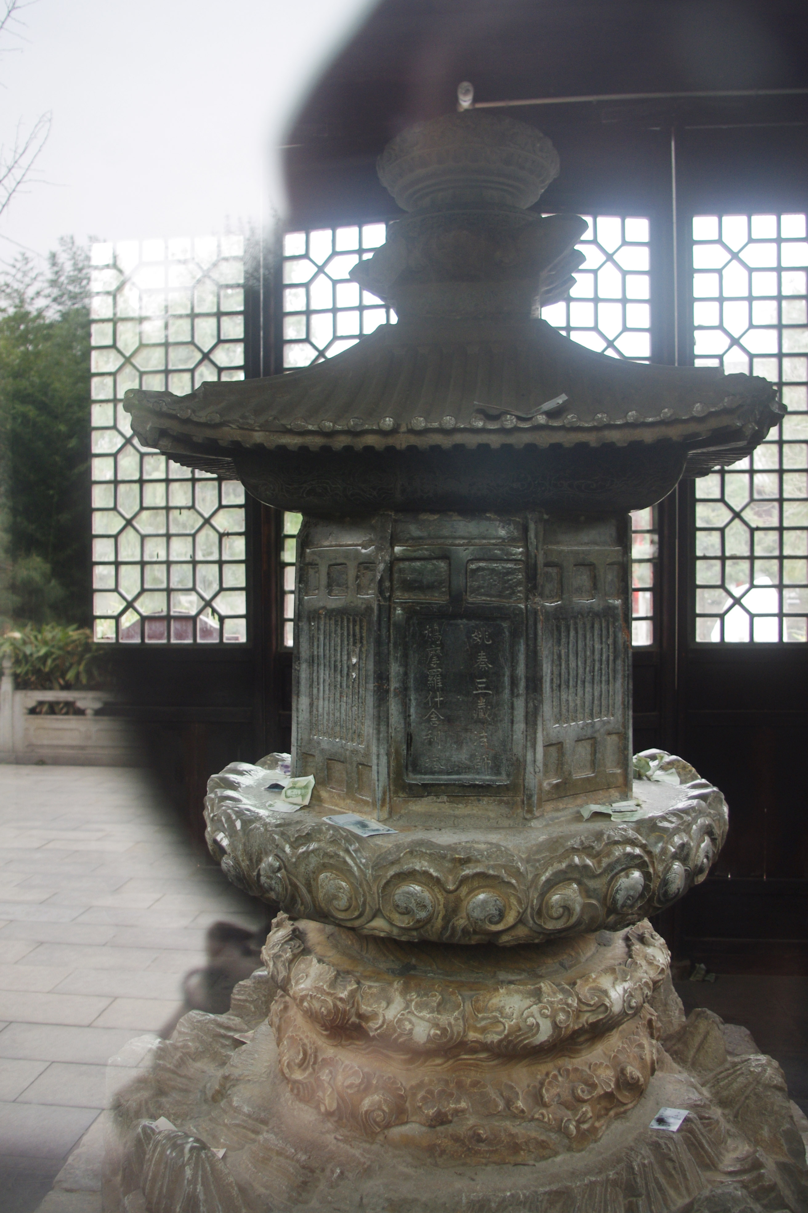 Memorial pagoda for Kumārajīva. Said to contain his tongue, which according to legend remained undamaged at the time of cremation.